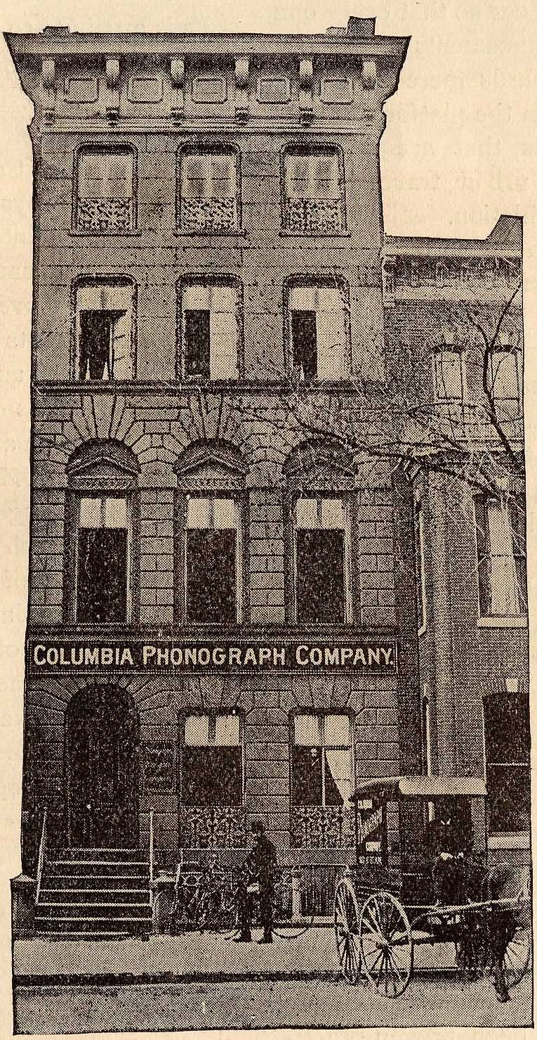 Columbia Phonograph Company Building, Washington, D.C. This was the original home of Columbia Records. Building at 627 E St. NW in Washington, D.C. is still standing as of 2008.